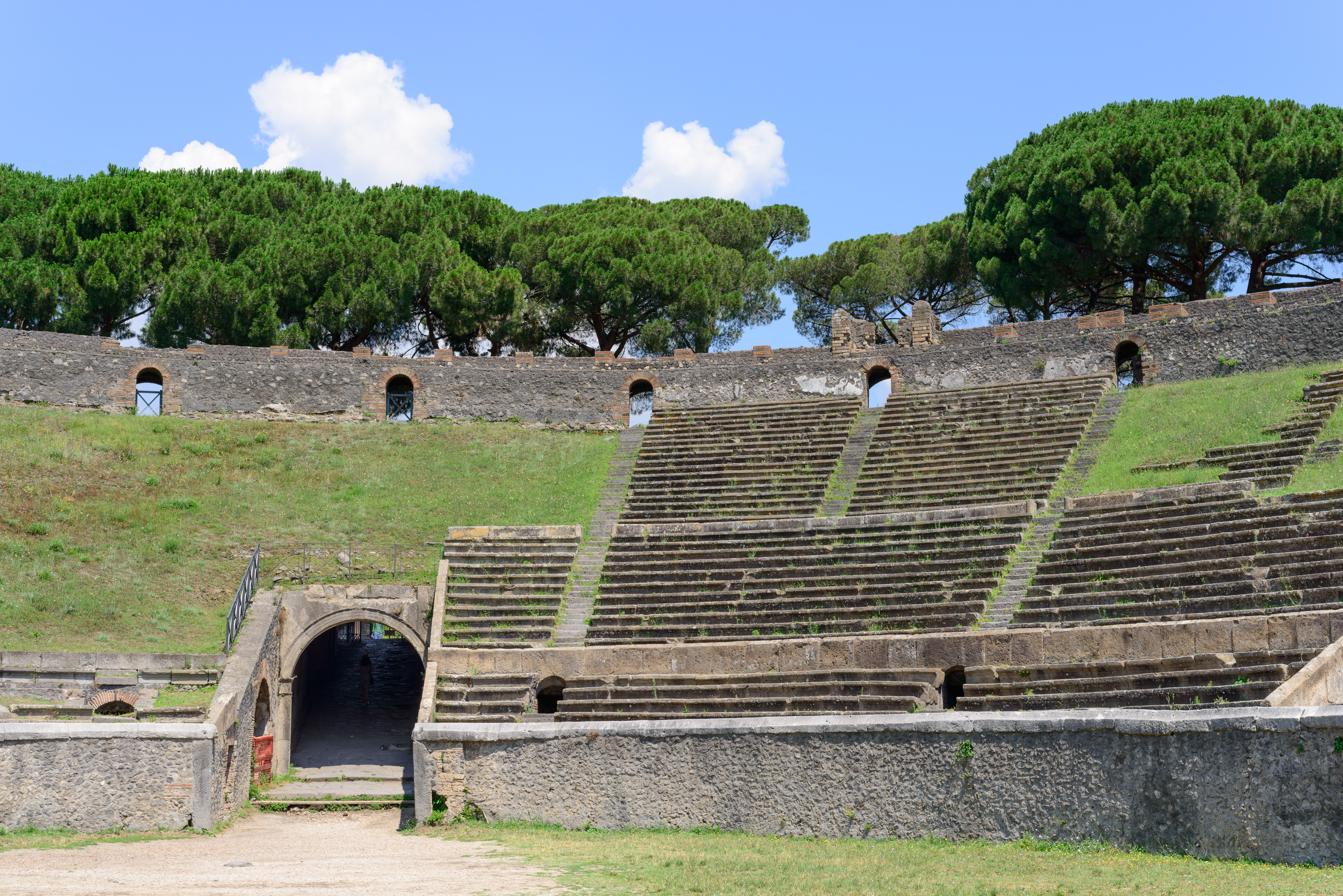 Amphitheatre, ancient Roman Pompeii, Campania, Italy.